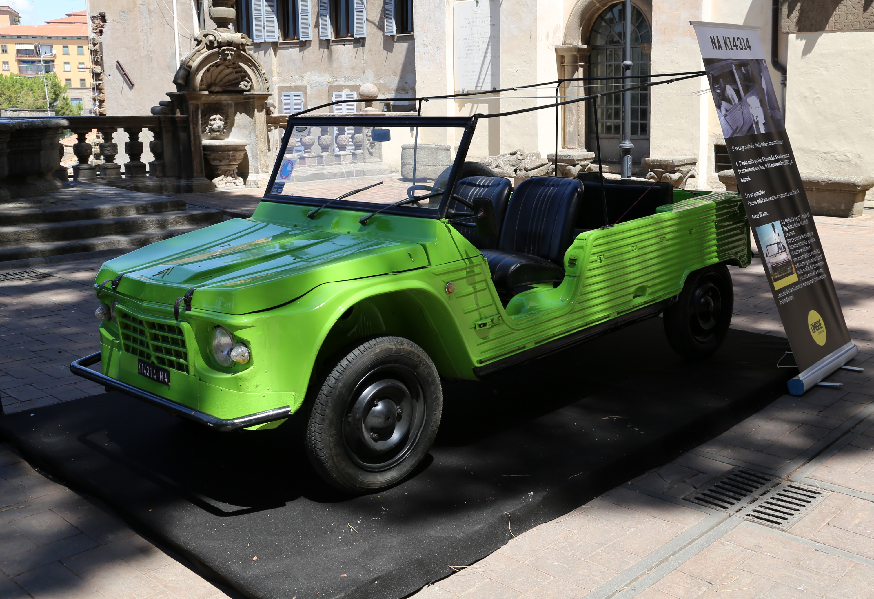 Palazzo dei Priori (Viterbo)